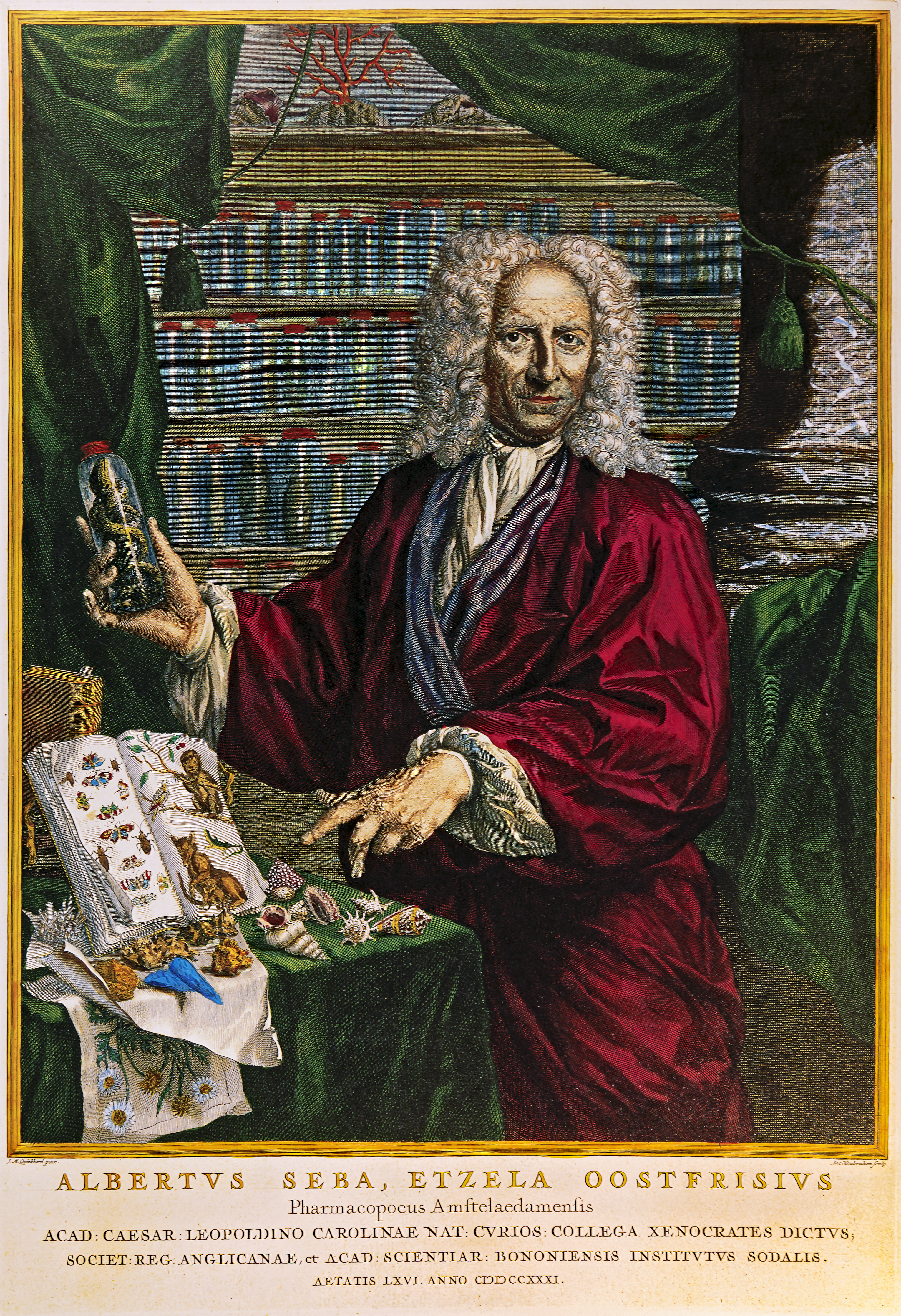 Depicted person: Albertus Seba – Dutch pharmacist, zoologist and collector